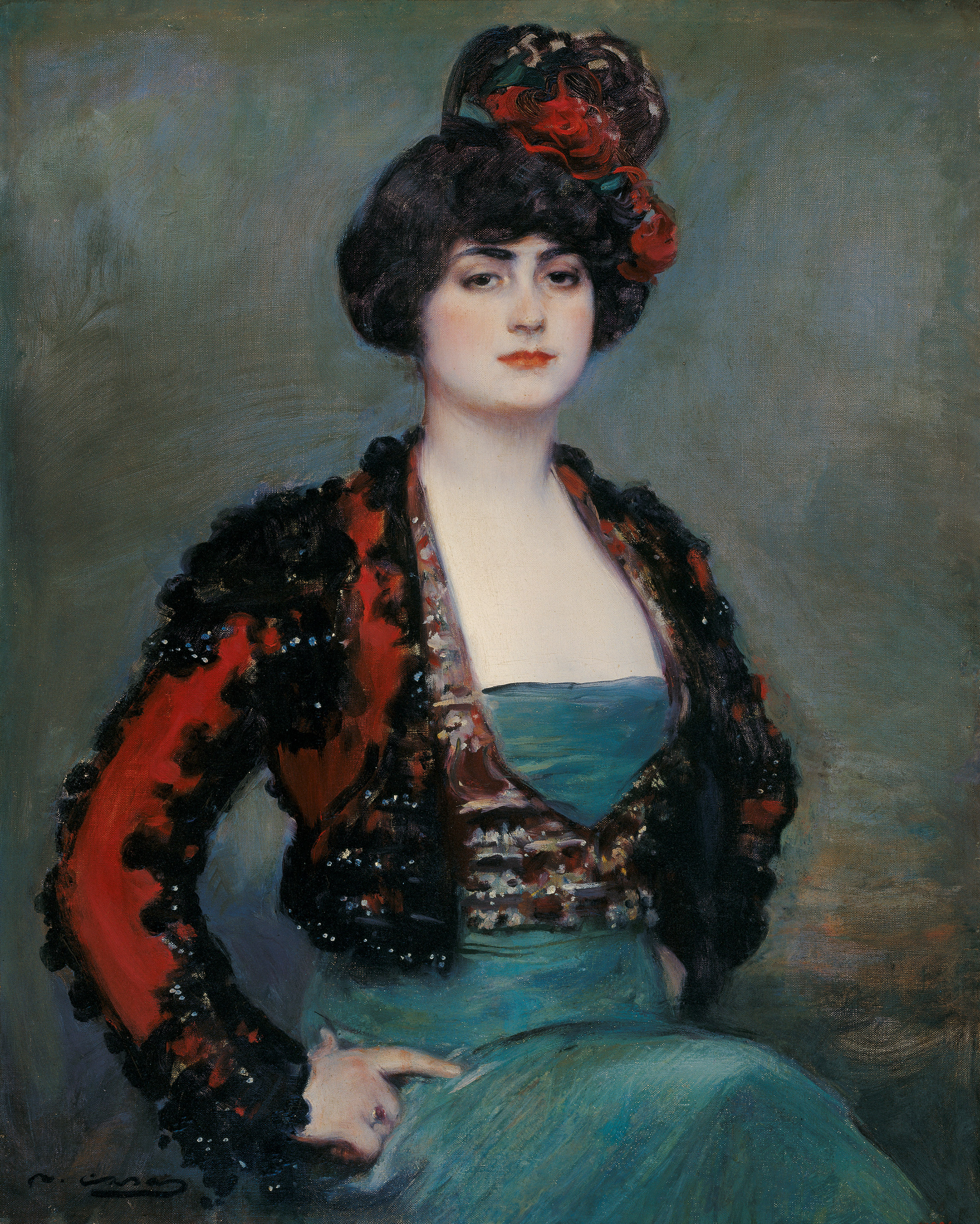 Julia. Oil on canvas. 85 x 67 cm. Inv. CTB.1997.38 Carmen Thyssen Museum Native nameMuseo Carmen Thyssen MálagaLocationMálaga, (Spain)Coordinates36° 43′ 17″ N, 4° 25′ 22″ W Established2011Website control VIAF: 230371067 LCCN: no2012034269 GND: 16335044-9 SUDOC: 163469776 BNF: 16968889h WorldCat